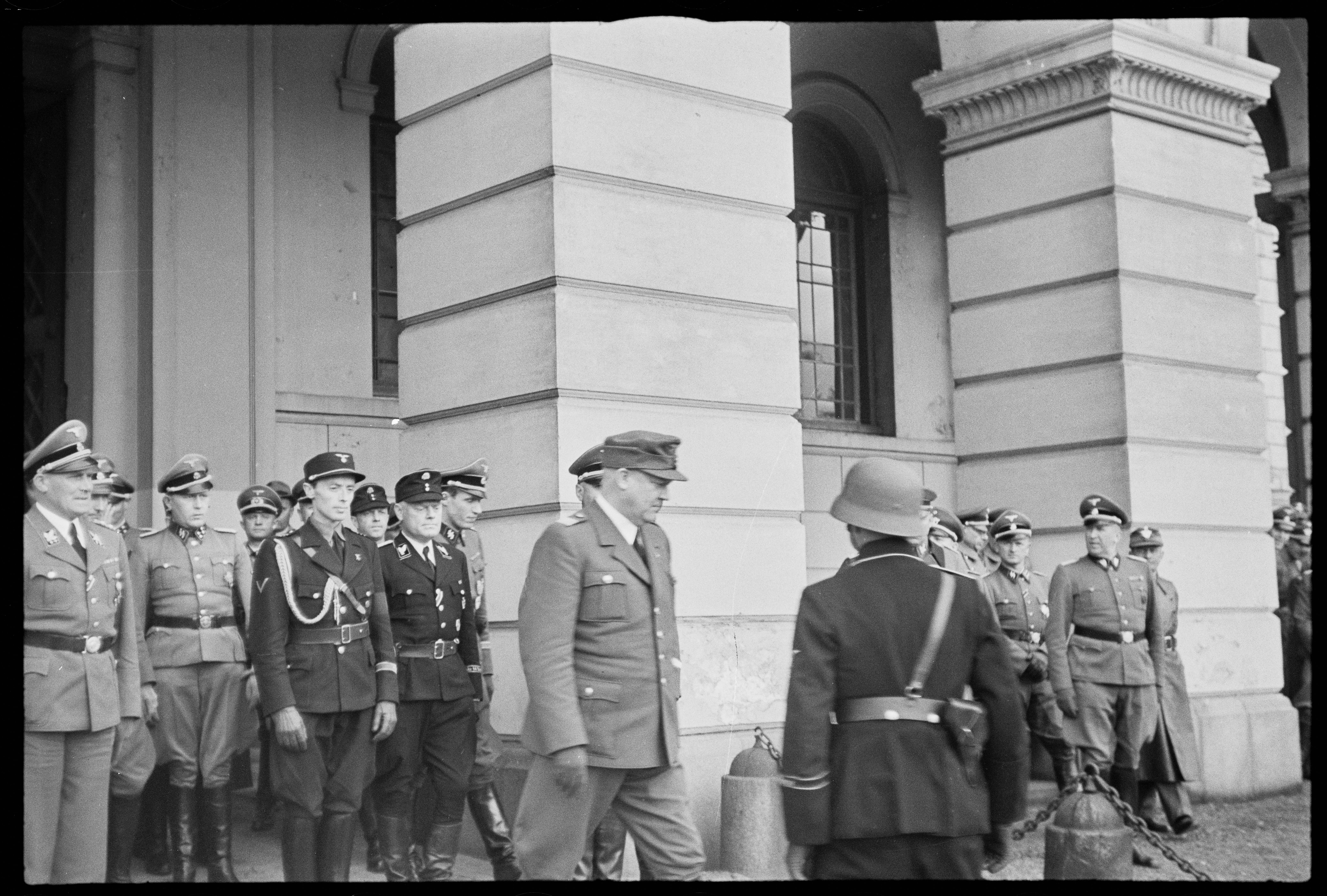 Germanske SS Norge paraderer på Slottsplassen (Original bildetekst)